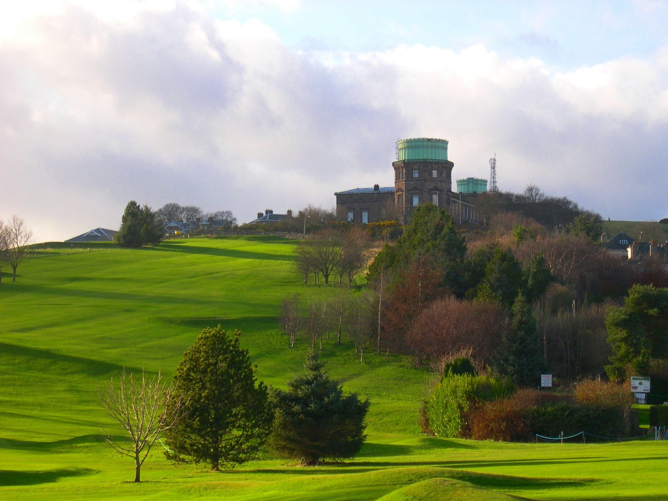 Photo looking southwest towards the Royal Observatory Edinburgh on Blackford Hill. On the left, Craigmillar Park Golf Course.